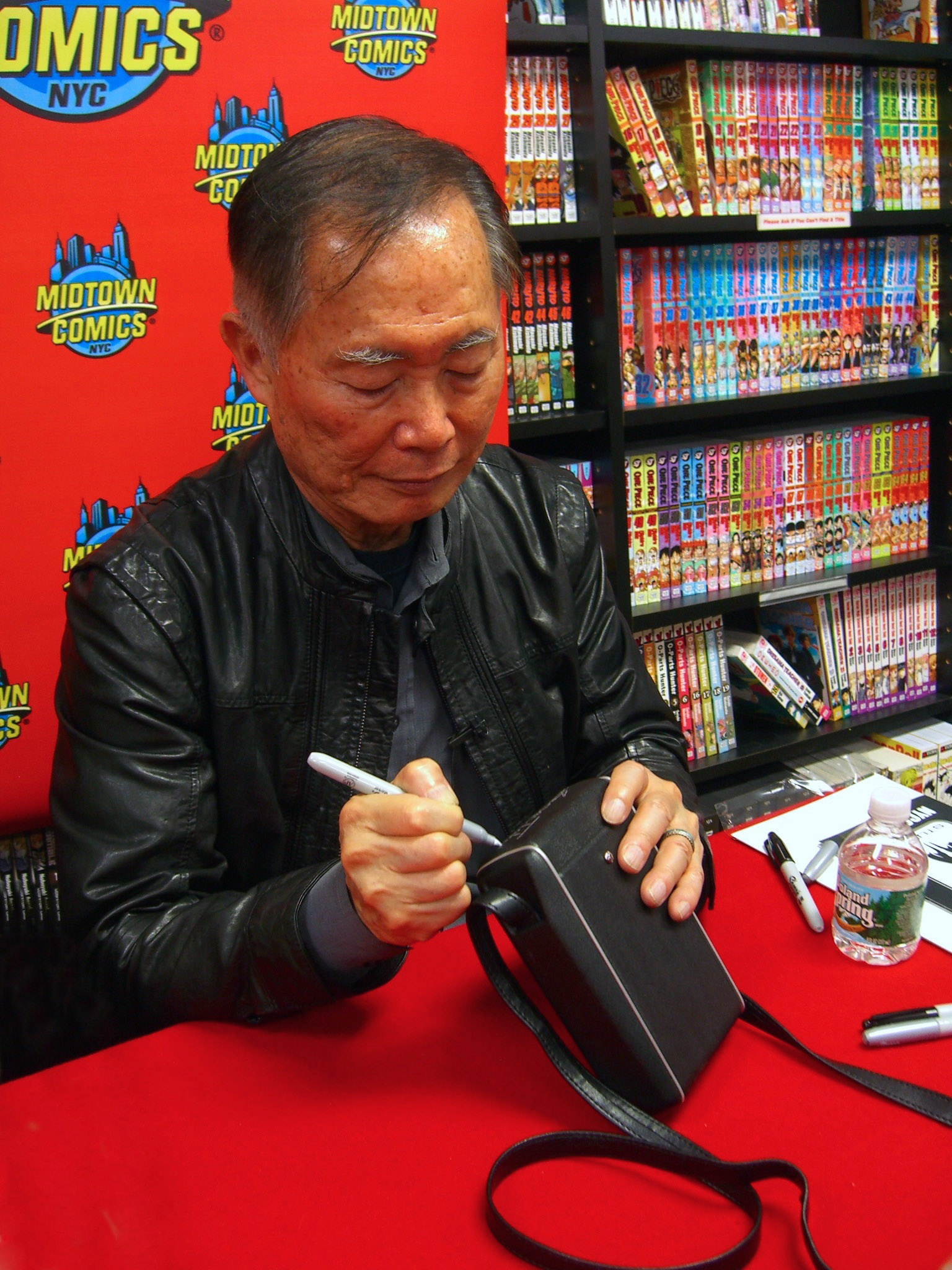 Star Trek actor George Takei autographing a tricorder at a December 5, 2012 signing for Archie's Pal Kevin Keller #6, at Midtown Comics Times Square in Manhattan. That series stars Kevin Keller, the first openly gay character to appear in Archie Comics, and issue #6 guest stars Takei, an LGBT rights activist. This photo was created by Luigi Novi. It is not in the public domain, and use of this file outside of the licensing terms is a copyright violation.